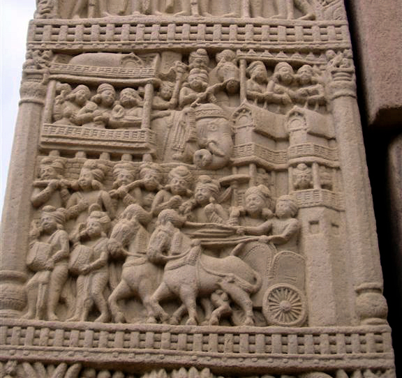 Detail on Sanchi stupa modified